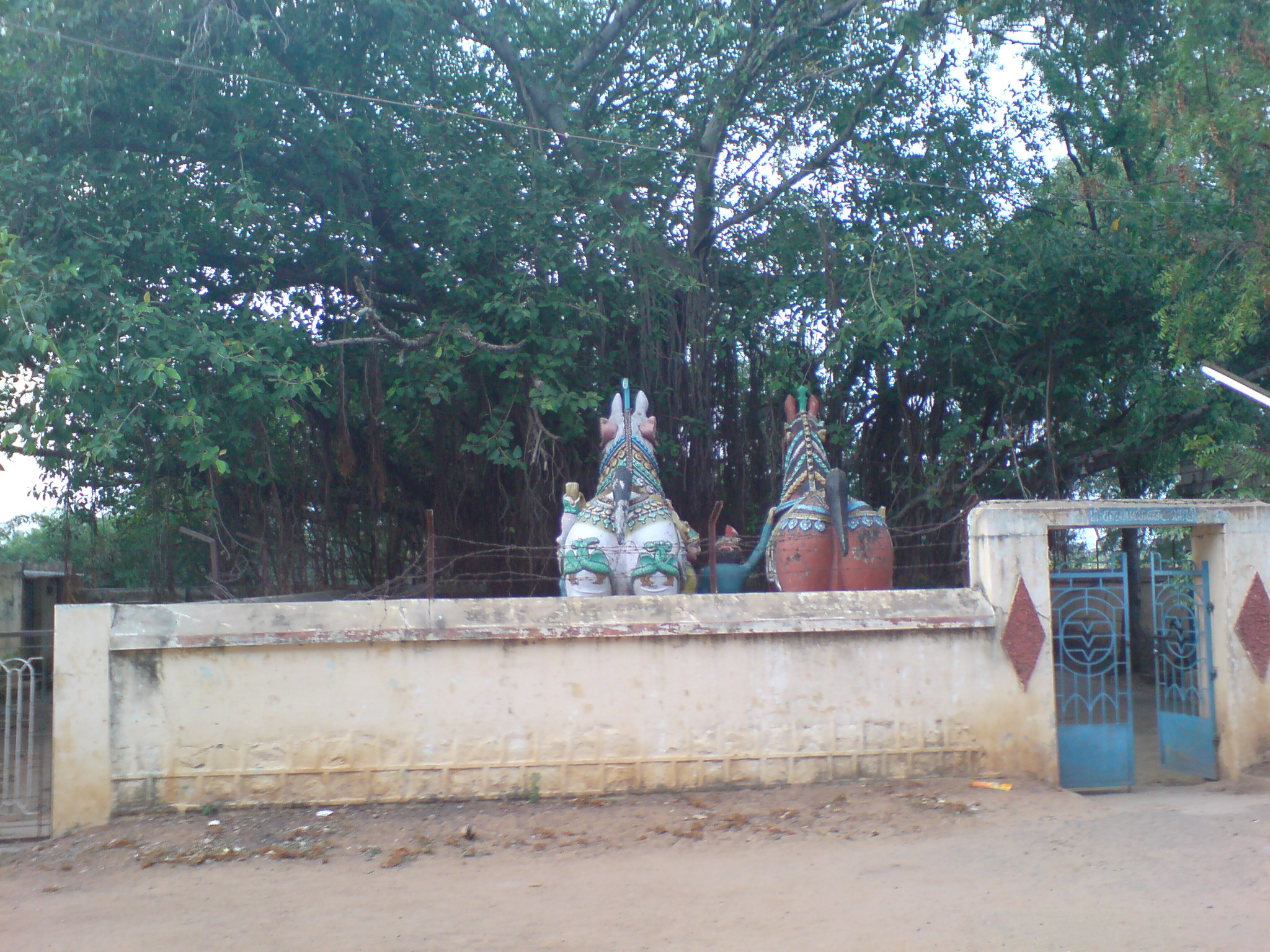 Hindu temple, gopuram